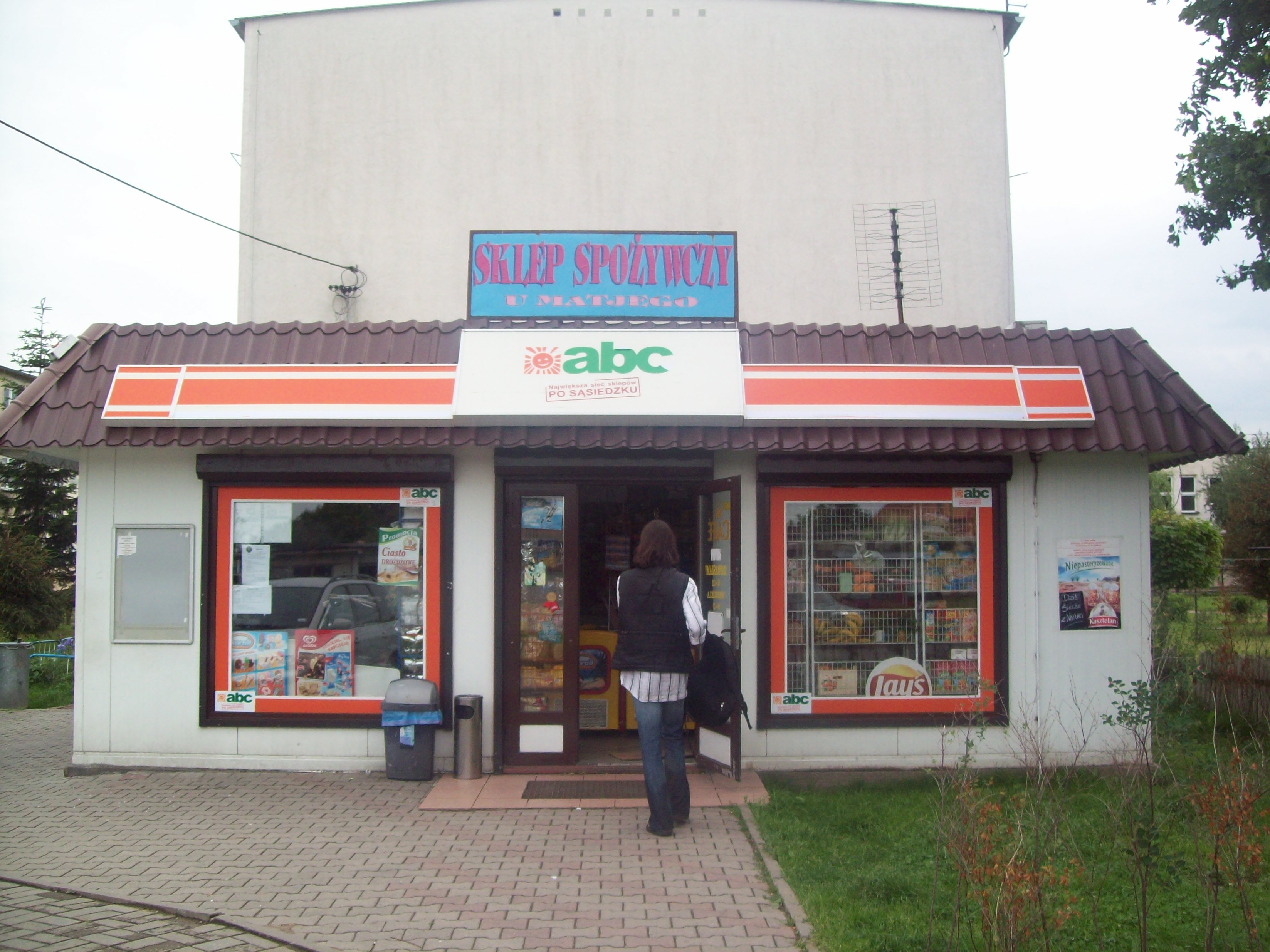 Sklep ABC na Nowym Osiedlu w Krosnowicach